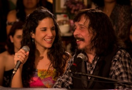 The Brazilians singers Benito di Paula e Verônica Ferriani